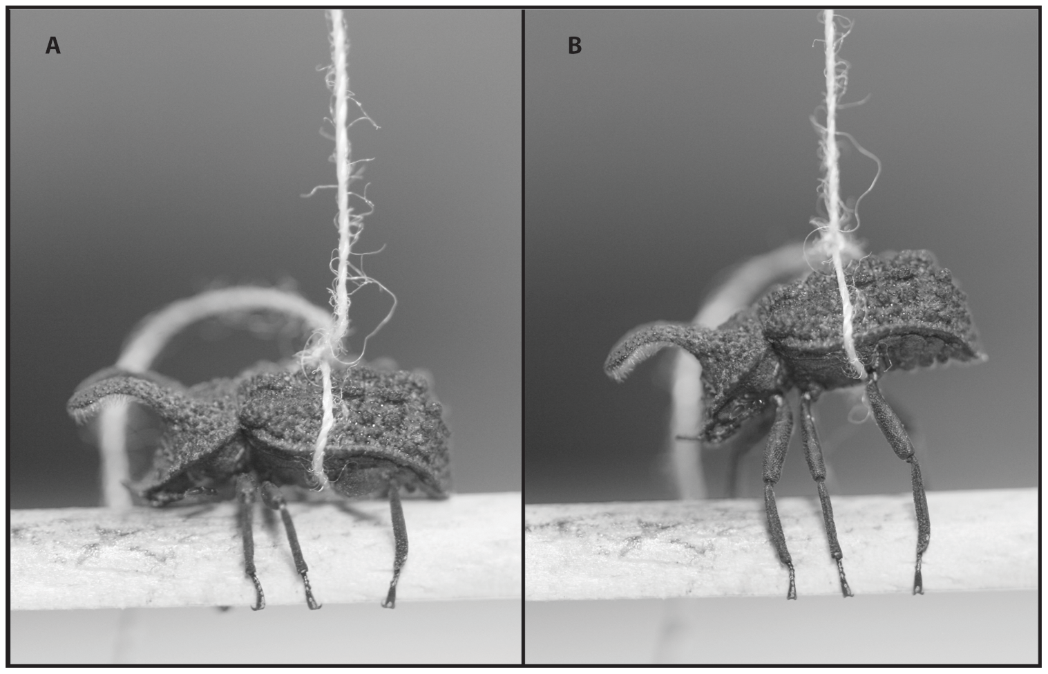 A large male Bolitotherus cornutus undergoing a grip strength trial. (A) The male grips the dowel rod in a similar fashion to how males grip females during courtship and guarding in the wild. (B) The same male at maximum resistance just before releasing the dowel rod.